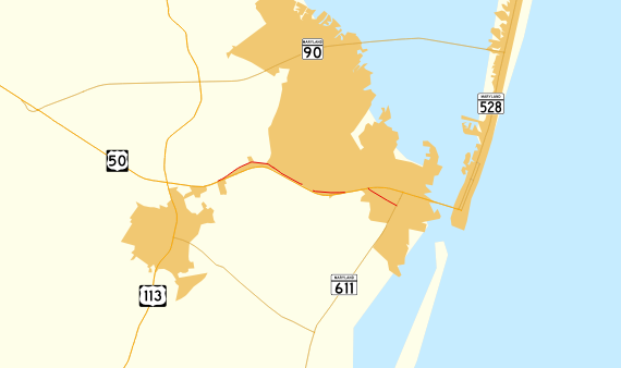 Map of Maryland Route 707